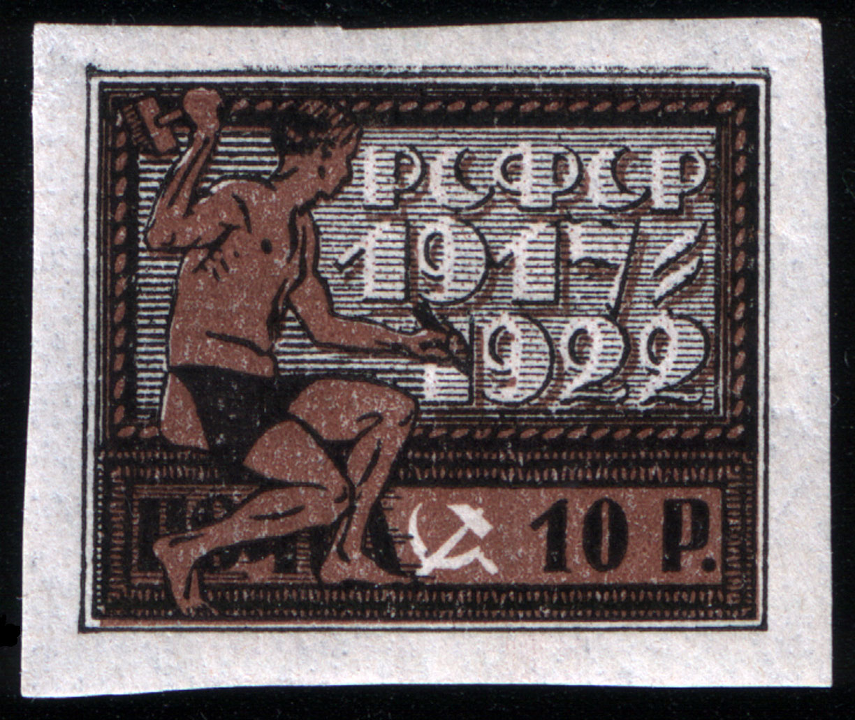 RSFSR stamp, 5 anniversary of October revolution 1917, 1922, 10 r.